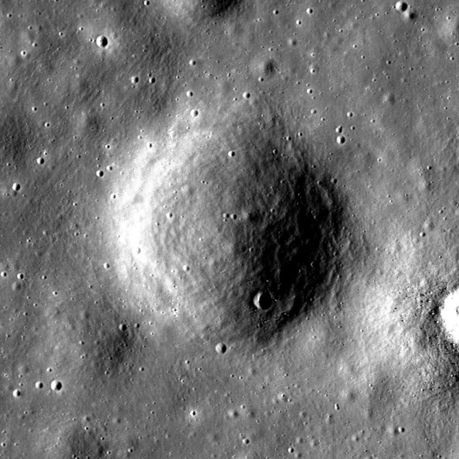 Small (700 m) crater Jerik on the Moon, between Mare Tranquillitatis and Mare Serenitatis. Centered at 18.52°N, 27.63°E (according to JMARS). Photo by Lunar Reconnaissance Orbiter, made with Narrow Angle Camera 27 May 2012 from altitude 129 km. Sun elevation is 19.7°. Width of the photo is 1.24 km, north is up.